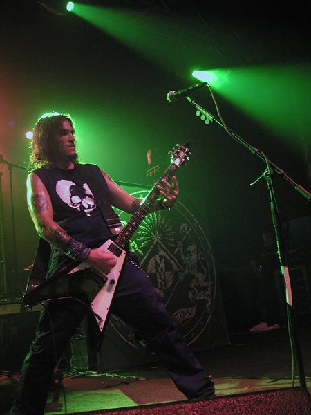 Machine Head in Milwaukee.